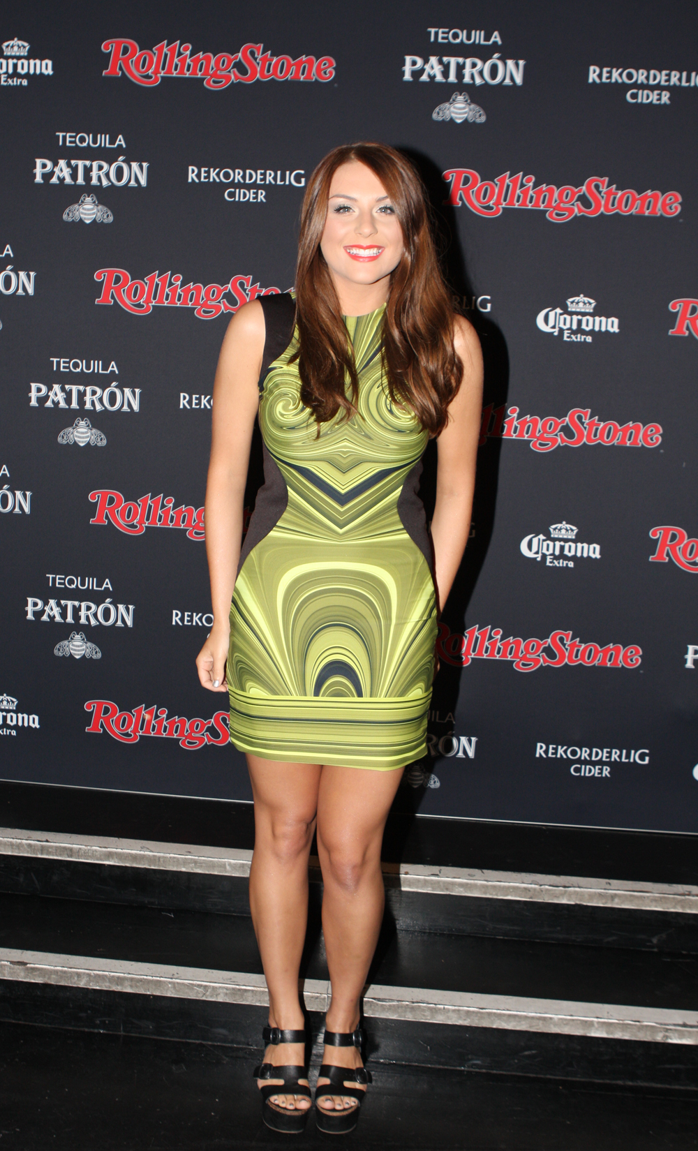 Owl Eyes (Brooke Addamo) at the Rolling Stone Australia Awards 2013: Beach Road Hotel, Bondi Beach, Sydney, Australia...)